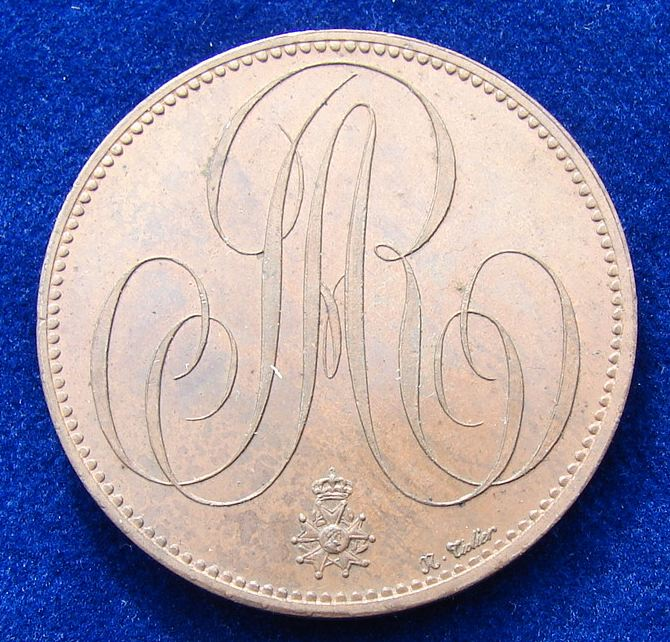 Obverse only. Cu, d. = 37 mm Antoine comte Roy, Finance Minister of Louis XVIII, 1764 Savigny (Haute-Marne) -1847 Paris Monogram "A", with "R", the medal of the Légion d’Honneur in exergue / 8 lines: "A S. EXC. M. ROY MINSTRE SECR. D' ETAT DES FINANCES L' ADMINISTRATION GÉNÉRALE DES MONNAIES 10.BRE 1820". Forrer VI, p. 100. Medallist: N. (Nicolas Pierre) Tiolier, 1784 Paris - 1853 Paris Condition: Nice EXTREMELY FINE+, little tarnish